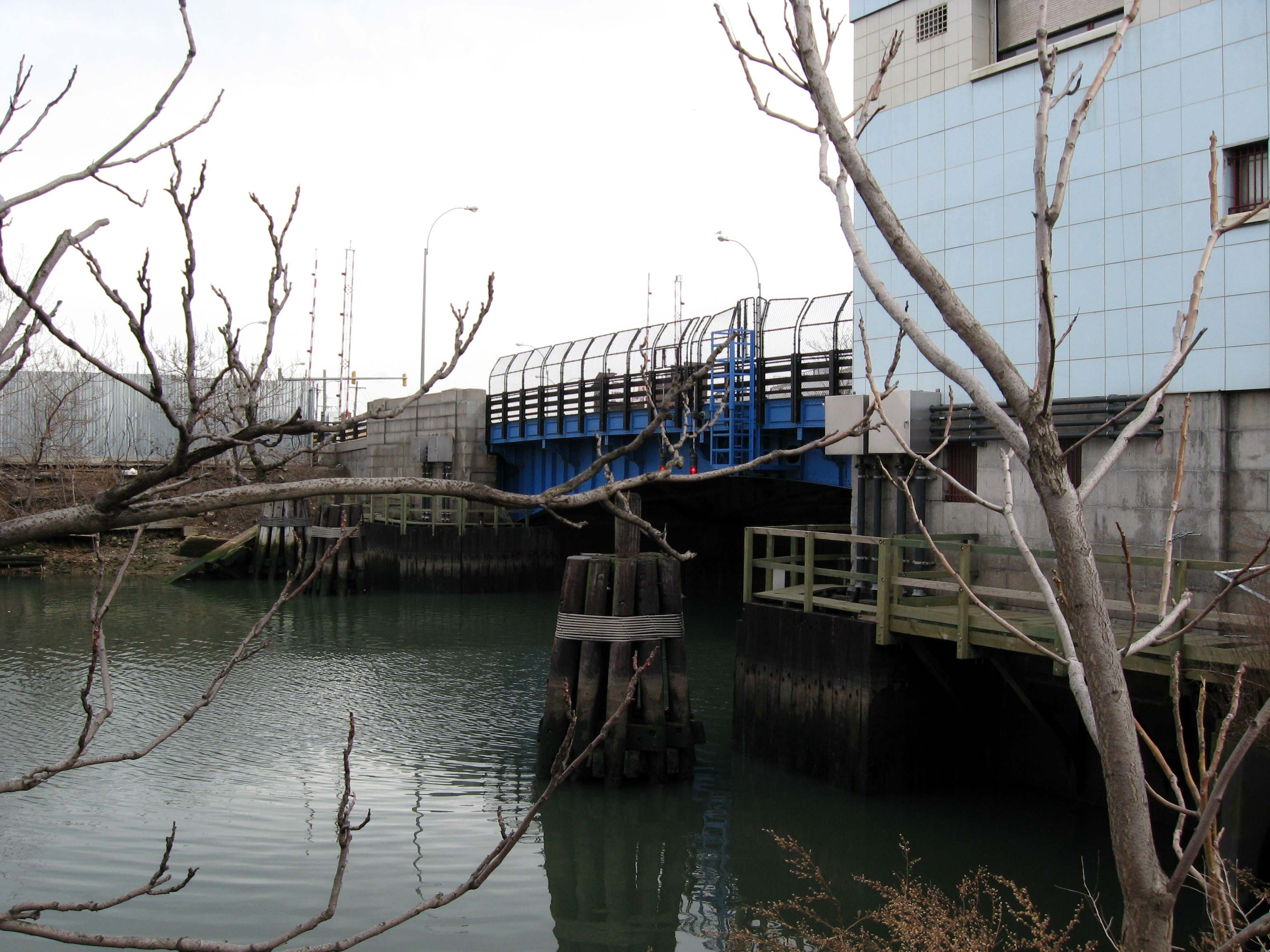 Metropolitan Avenue Bridge carries both Grand Street (Brooklyn) and its namesake avenue over English Kills (the eastern end of Newtown Creek), as seen from northwest